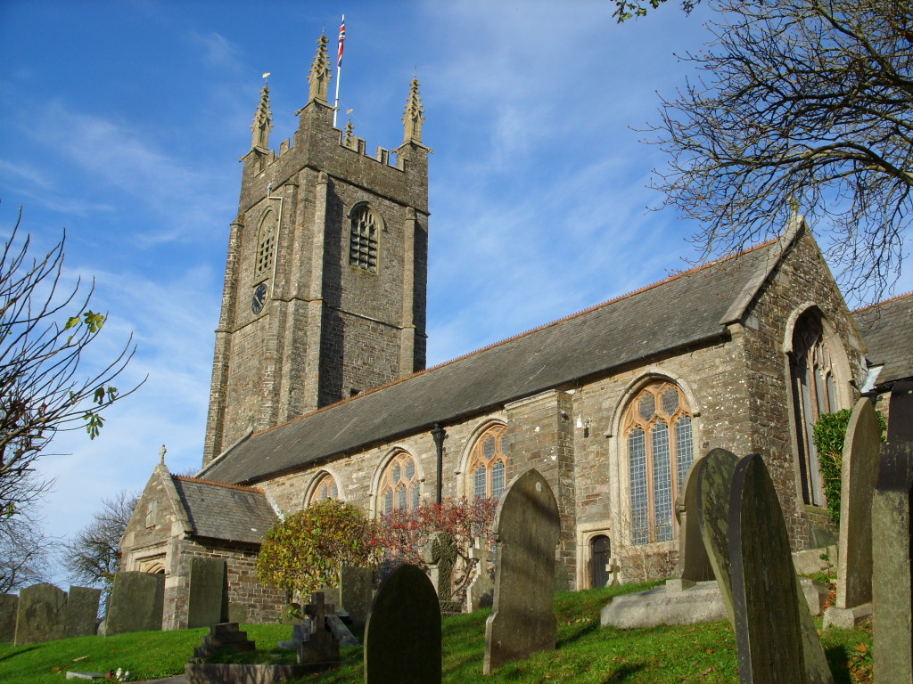 Talskiddy 17:25, 13 November 2007 (UTC)